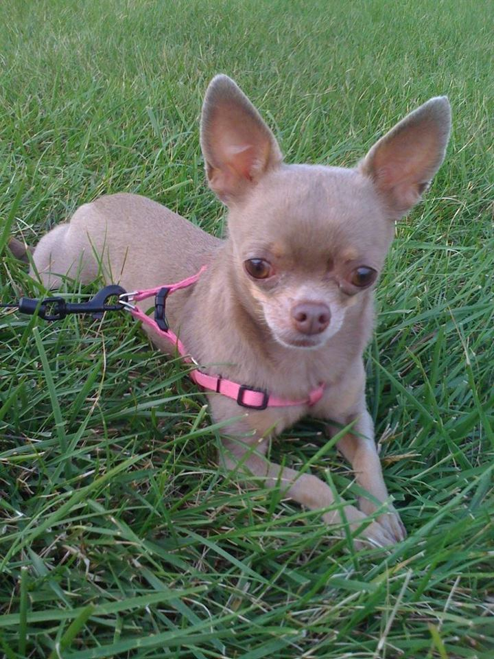 6 year old, 3lb female chihuahua named Riley